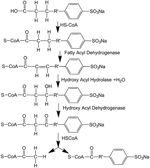 beta oxidation of LAS biogradation